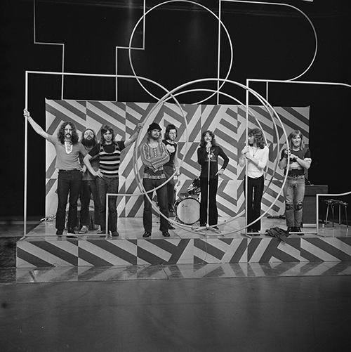 Dizzy Man's Band in AVRO's TopPop (Dutch television show) in 1972